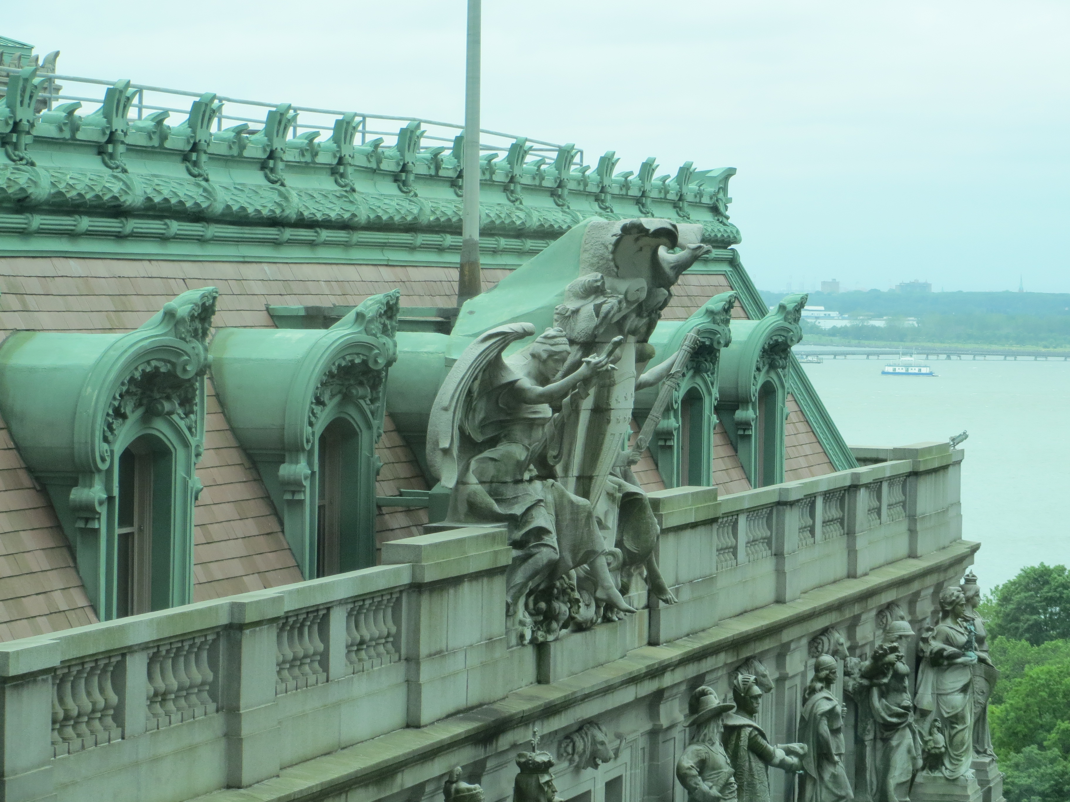 View of the upper facade with architectural sculptures — of the Alexander Hamilton U.S. Custom House — from an adjacent building, in Manhattan. Custom House houses the National Museum of the American Indian, New York.